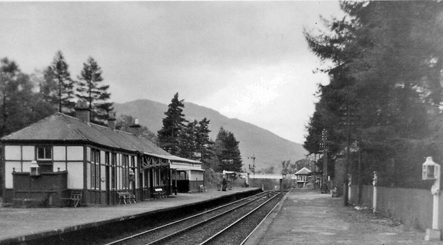 Balquhidder Station, Near to Kingshouse, Stirling, Great Britain. View SW, towards Callander. This was the main line from Glasgow to Oban via Callander, which was slated to closure Dunblane - Crainlarich (with Oban services being diverted to the West Highland Line at Crianlarich) on 1/11/65, but owing to a landslide at Glenogle was closed prematurely on 28/9/65. A branch from Comrie to Balquhidder had been closed on 1/10/51.